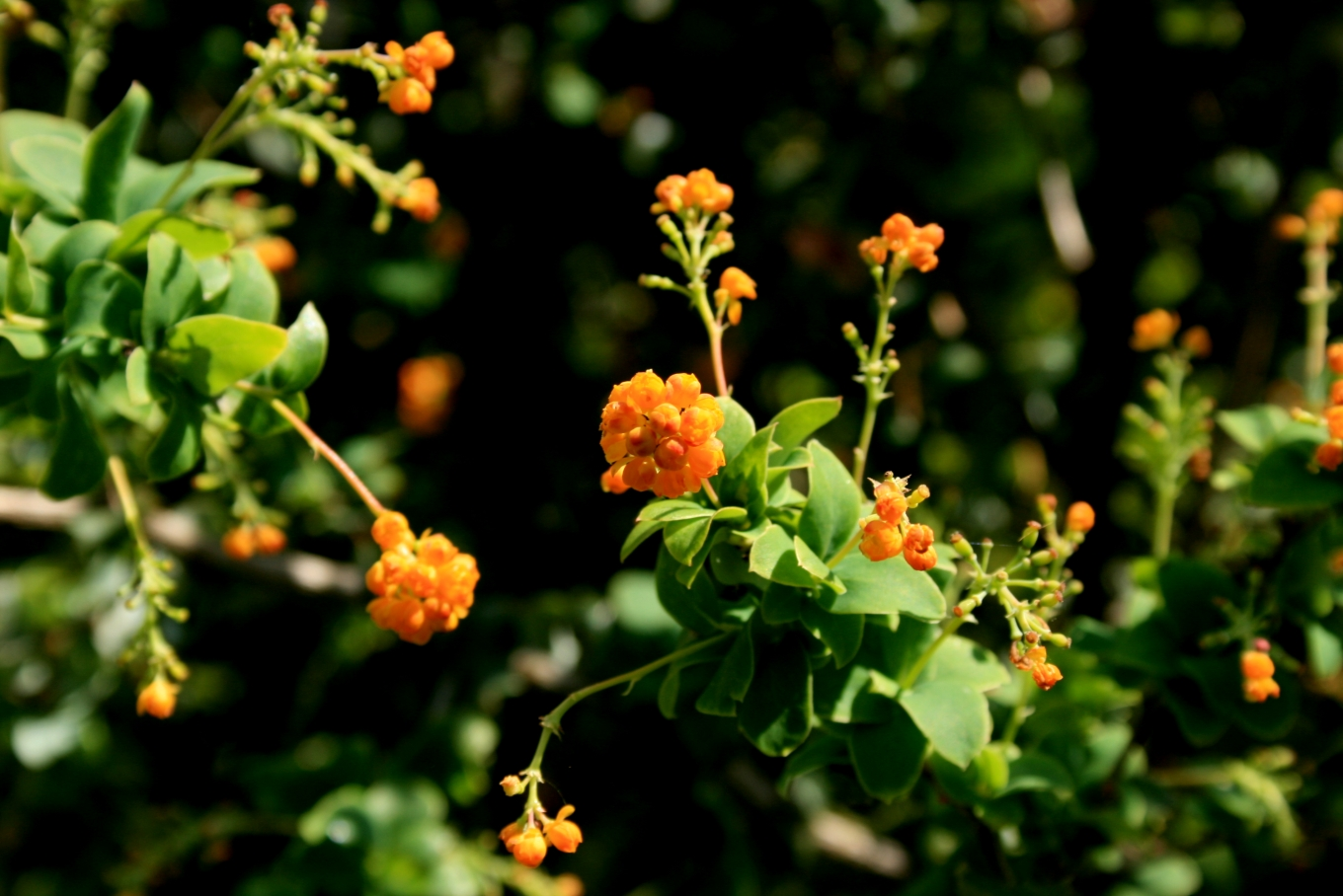 Berberis sp.: Flowers. Kew Gardens, London